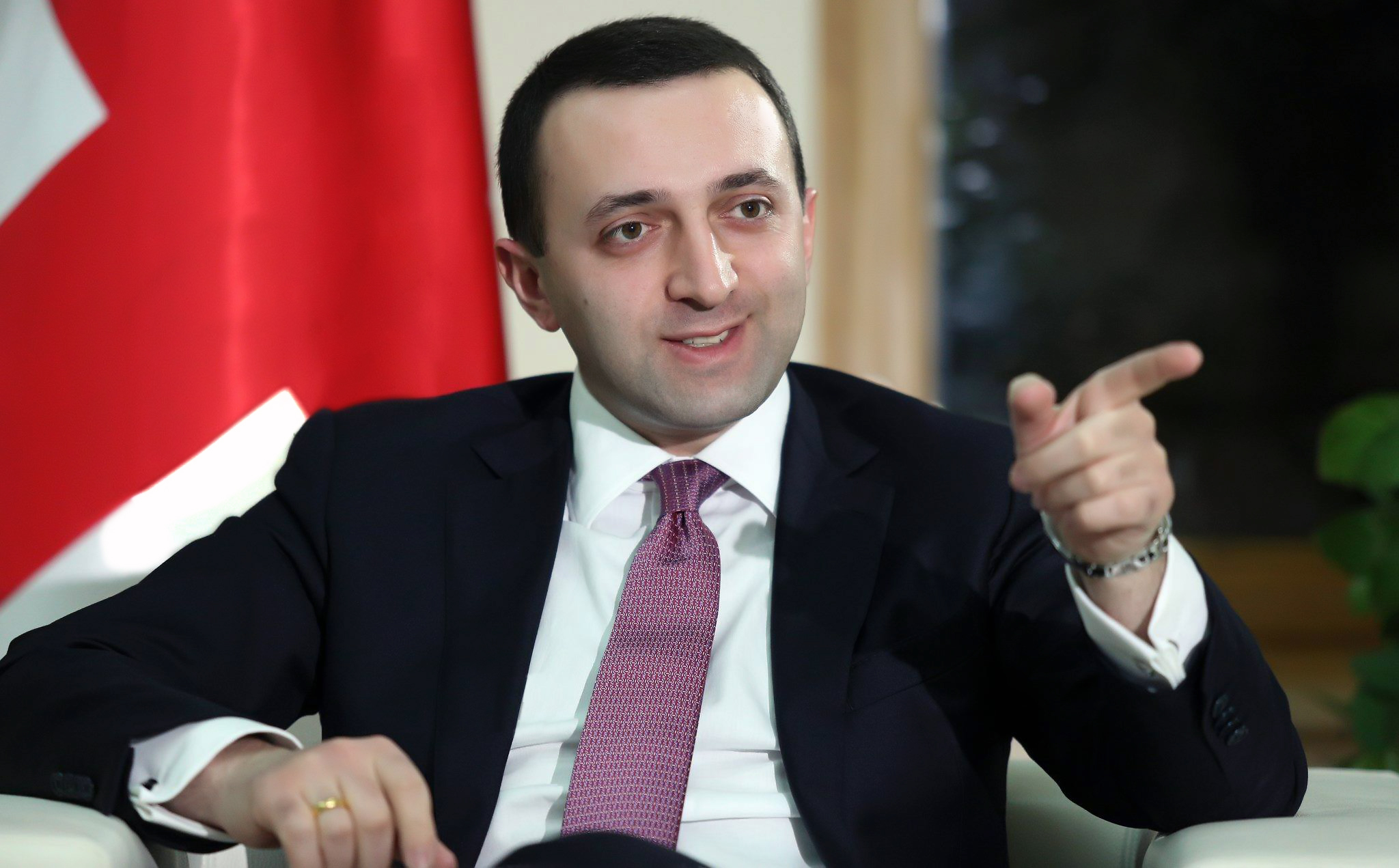 Irakli Garibashvili during an interview with Reuters